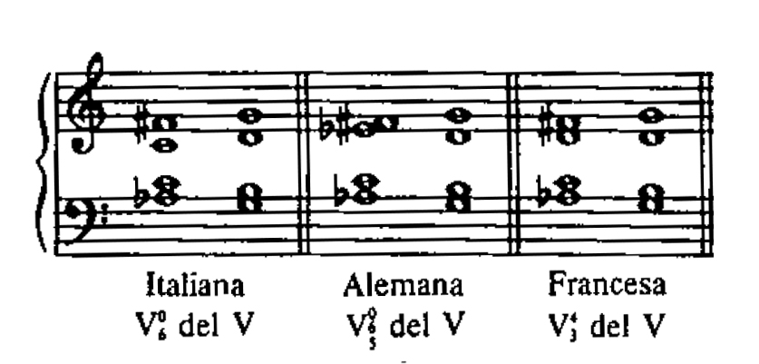 Sextas aumentadas